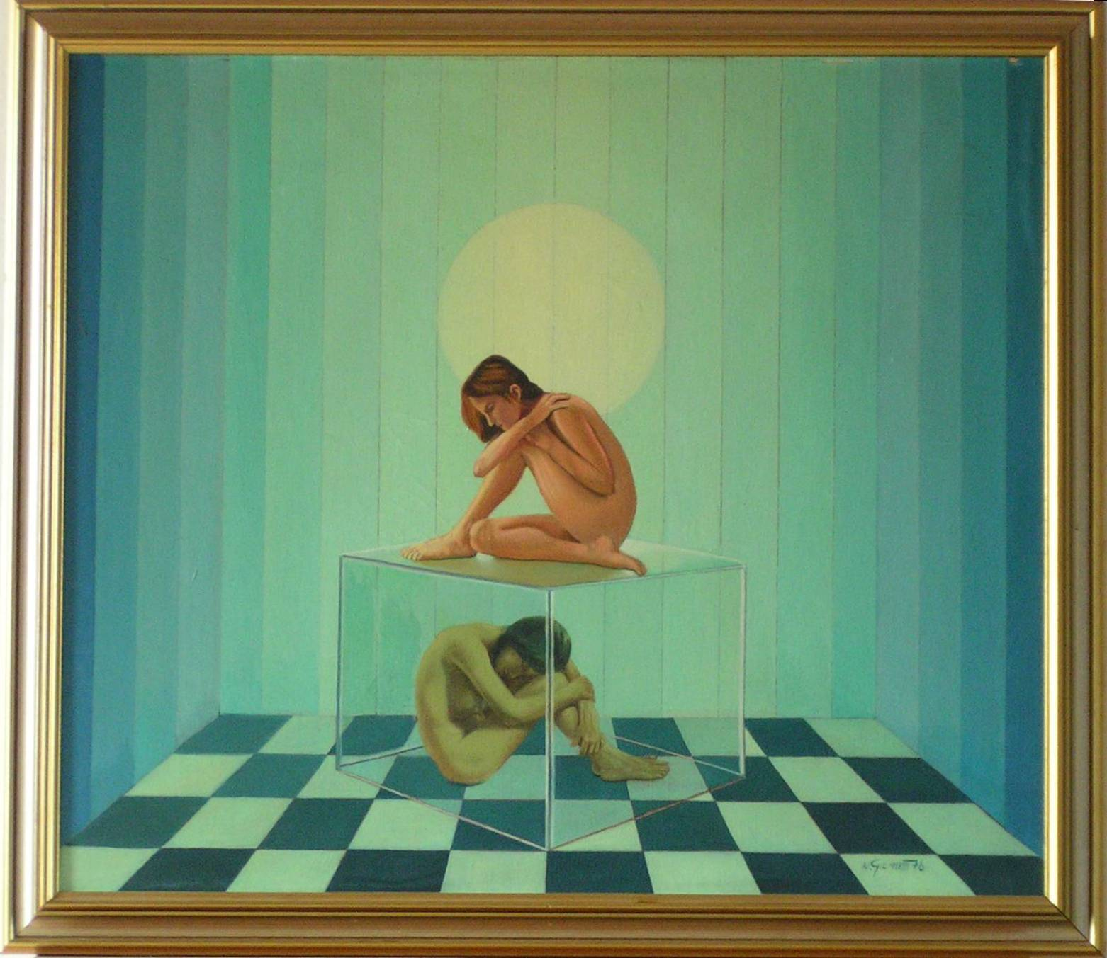 Work of the Italian painter William Girometti, title: "C... for Conditioning", 1976, oil on canvas, cm. 60x70 - owned by his daughter.